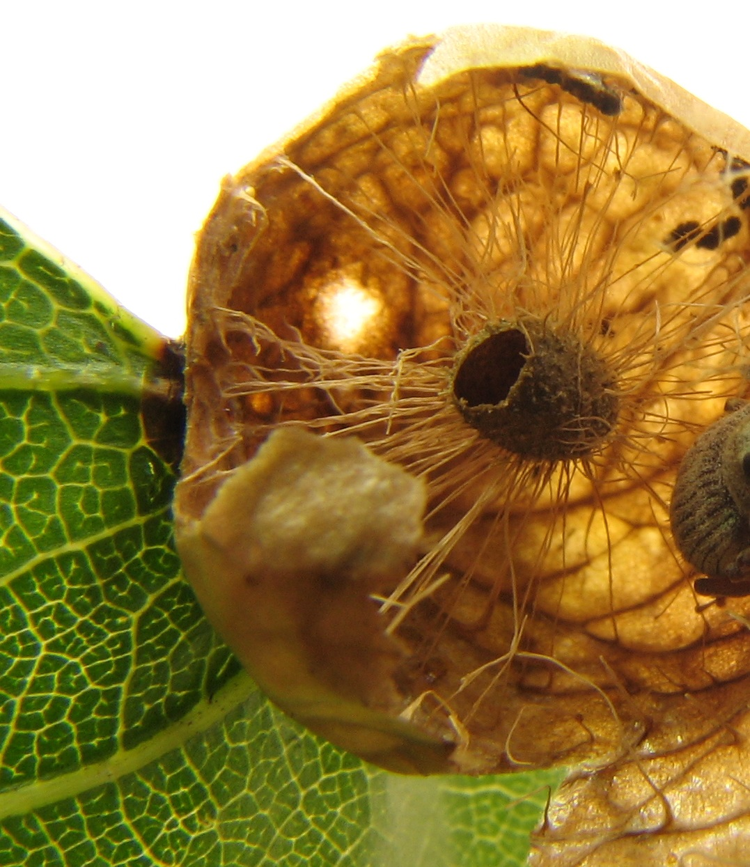 Larger empty oak apple gall on oak leaf, made by cynipid wasp Amphibolips quercusinanis. Warminster, Bucks County, Pennsylvania, USA.